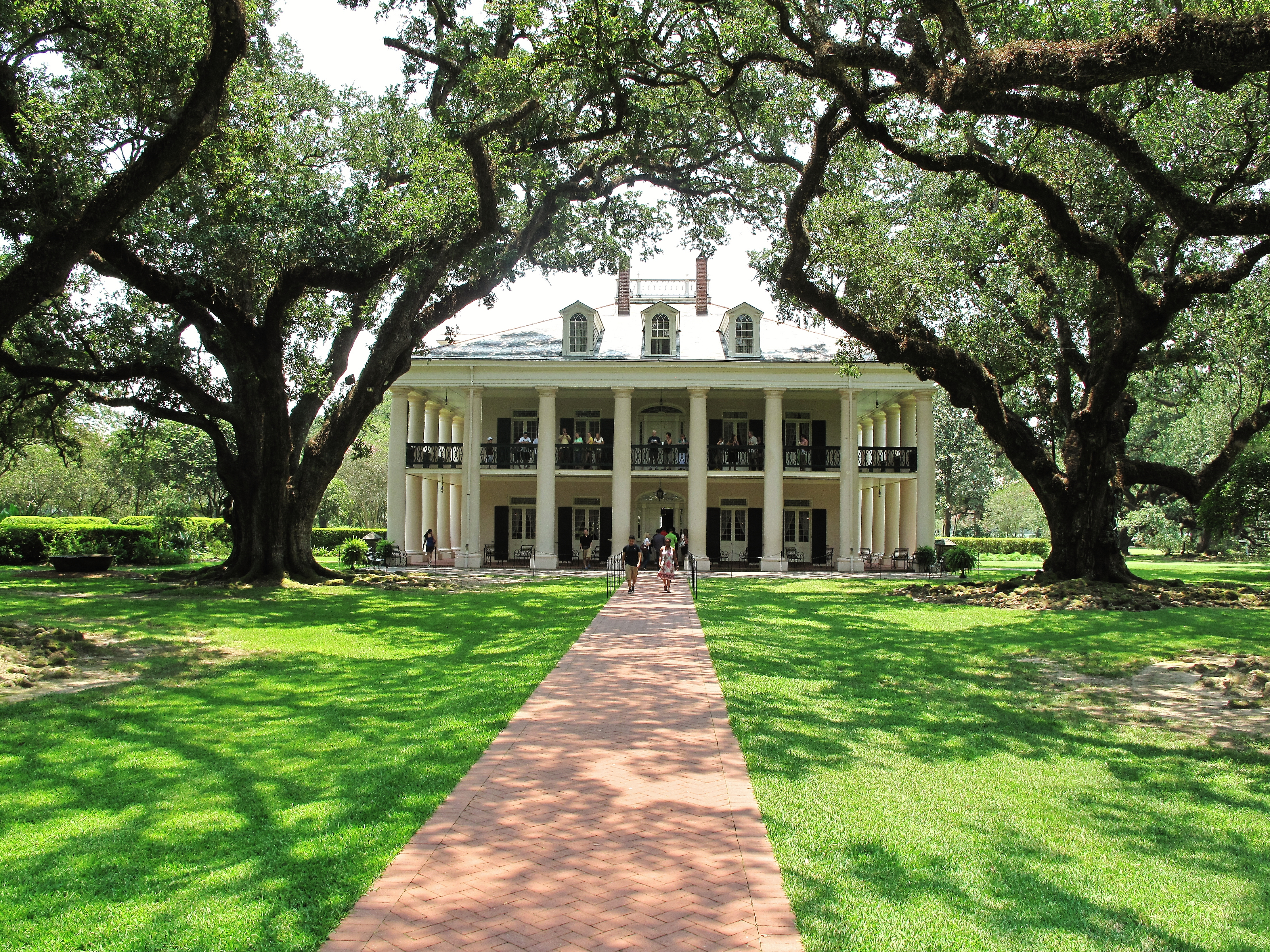 Oak Alley Plantation